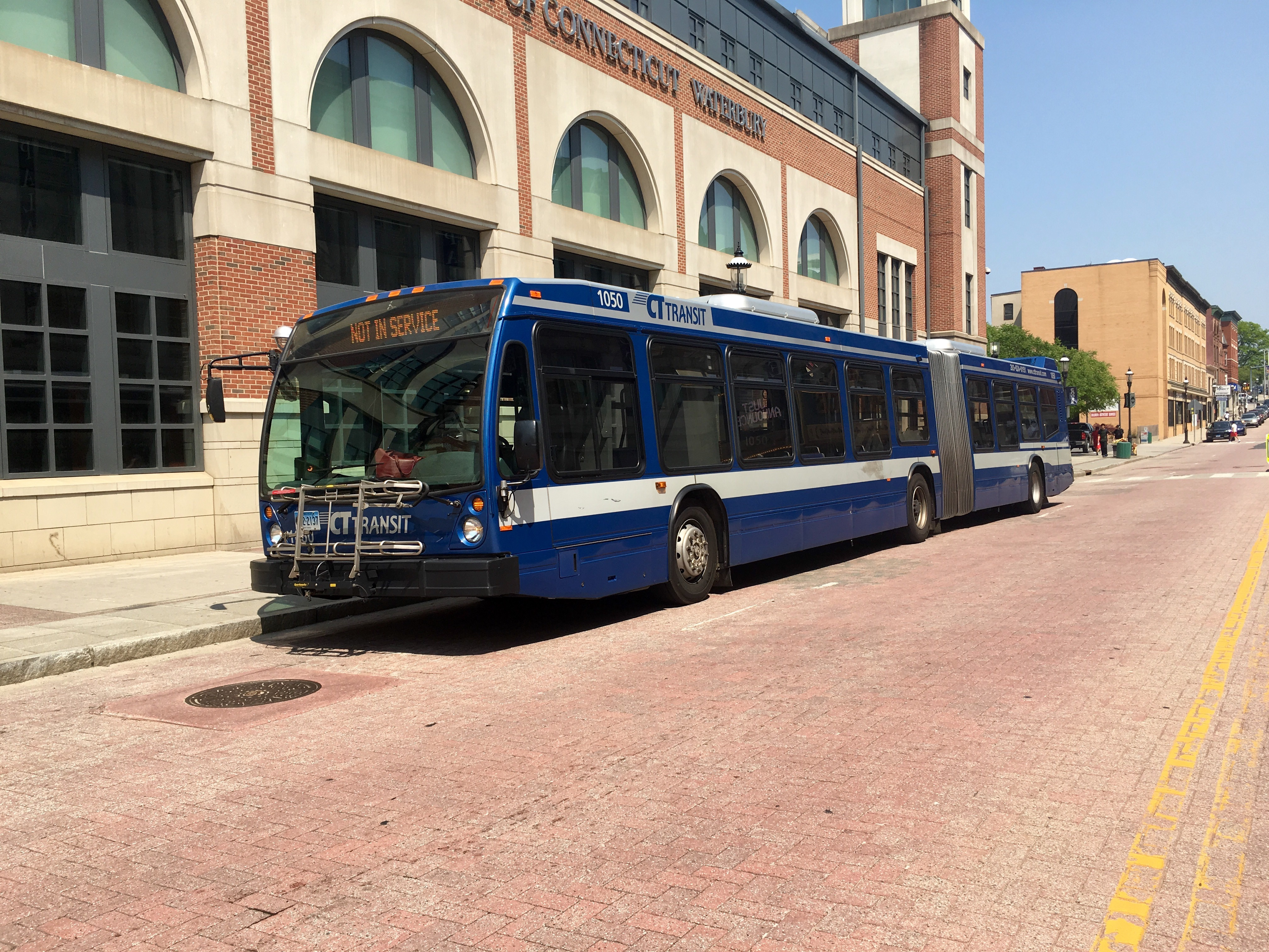 CTtransit 2010 NovaBUS LFSA #1050 found just north of Exchange Place in Waterbury,CT